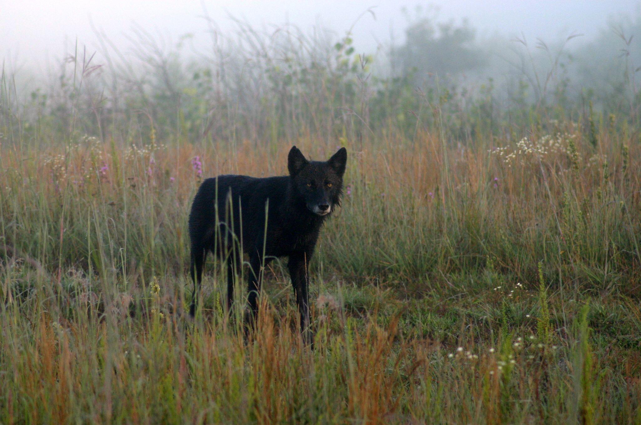 This timber wolf was one of a pair seen near the visitor center at Necedah National Wildlife Refuge on Jan. 12, 2012 Photo: USFWS